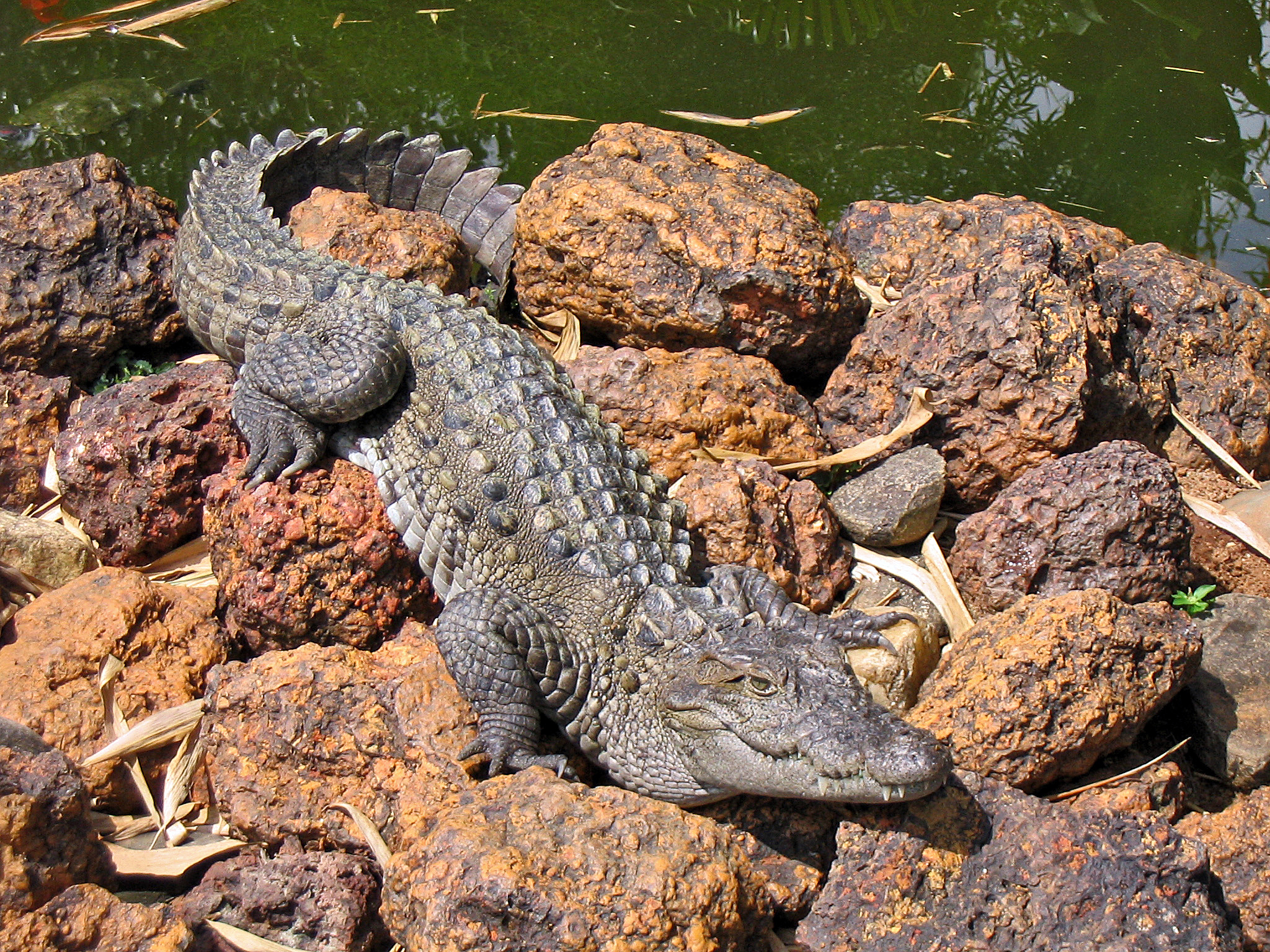 bring on the heat, willya? (An Indian Marsh Crocodile Crocodylus palustris)